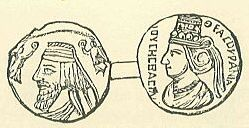 Coin of Phraataces and Musa from Parthia